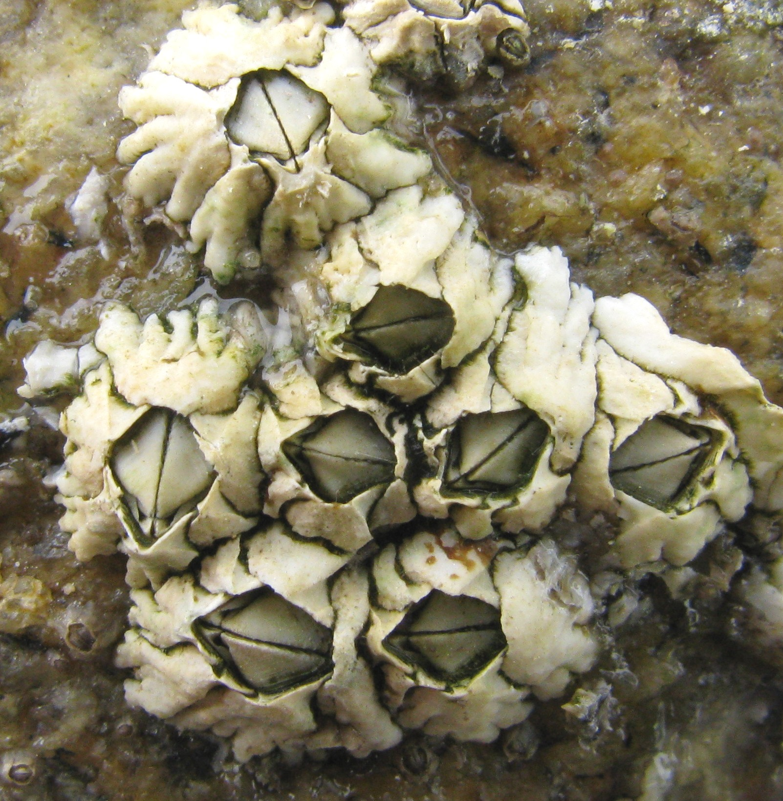 A group of Semibalanus balanoides